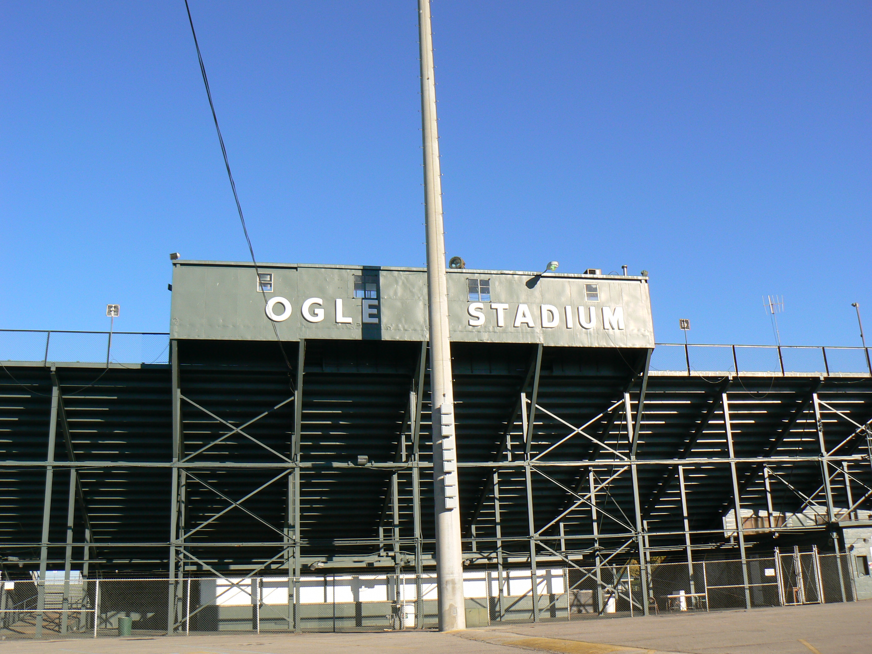 Self taken picture of front of Ogle Stadium.